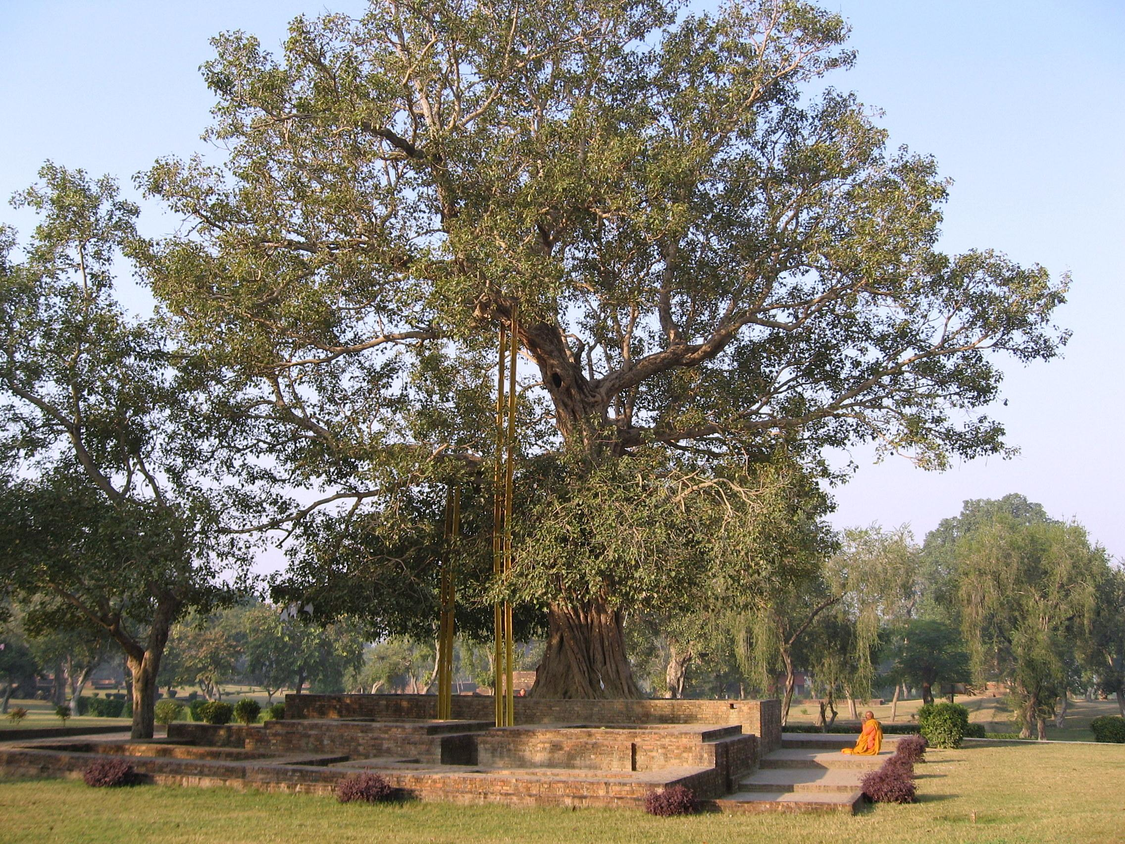 Anandabodhi tree in Jetavana Monastery, Sravasti, Uttar Pradesh, India. This is one of the 3 most holy Bodhitrees in Buddhism. The original tree was a sapling of the Mahabodhi tree in Bodhgaya.